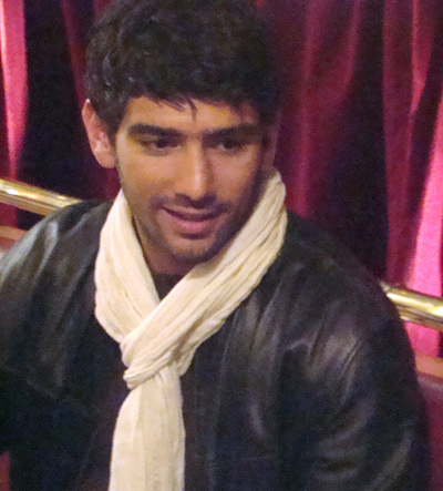 Salim Kechiouche (actor)